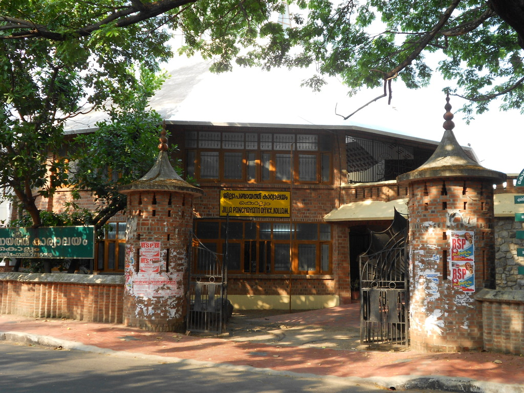 This media file is uploaded with Malayalam loves Wikimedia event - 2. Kollam jilla panchayath building